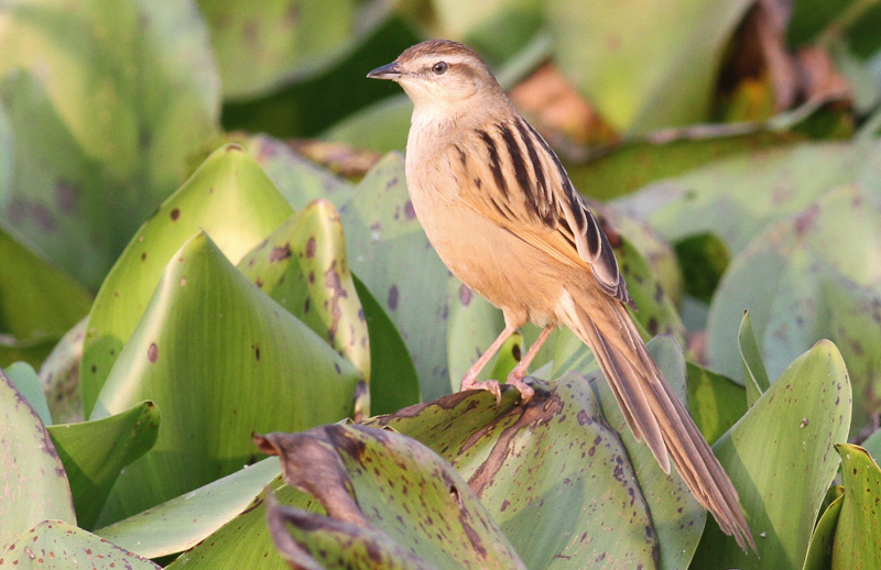 Megalurus palustris (Locustellidae) (Striated Grassbird), Sylhet, Bangladesh